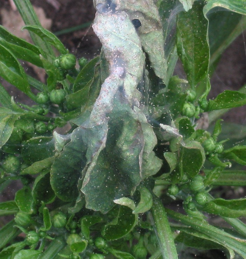 (nl: Spint (Tetranychus urticae) op paprika) Tetranychus urticae on Capsicum annuum